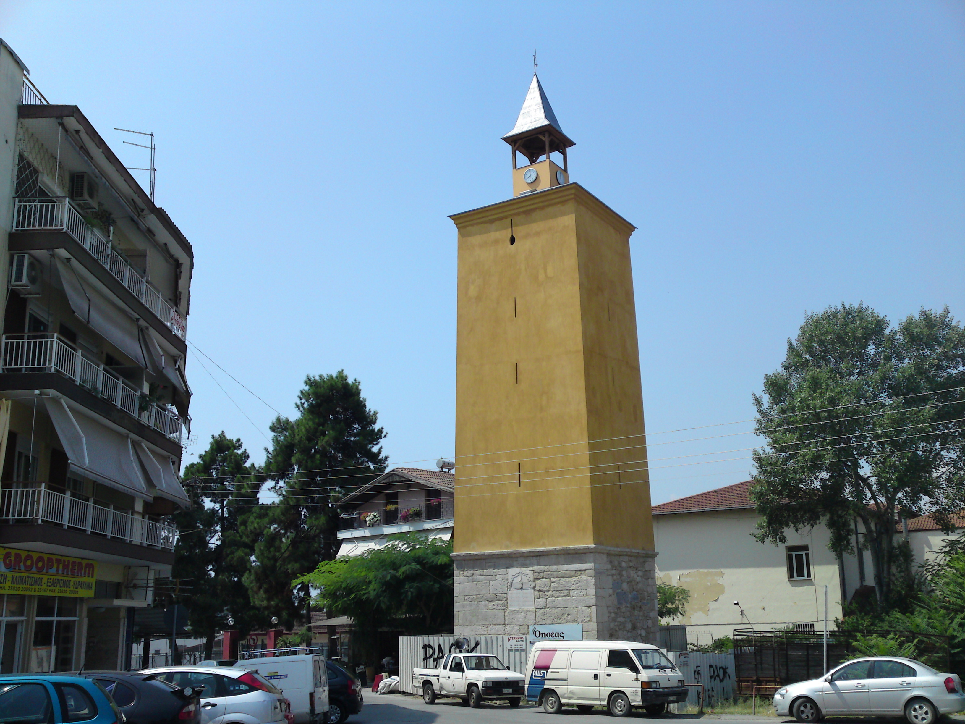 Clocktower in Giannitsa, Greece.